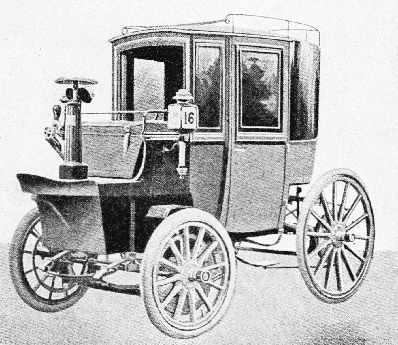 Krieger coupe